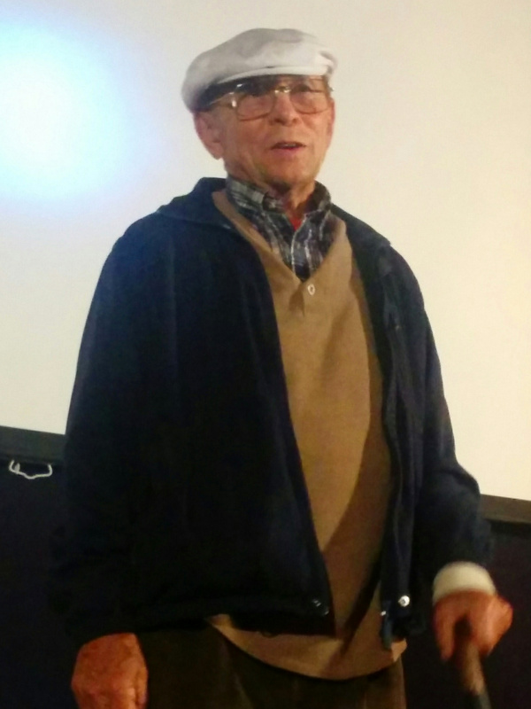 Bruce Baillie at New Nothing Cinema in San Francisco, California, United States